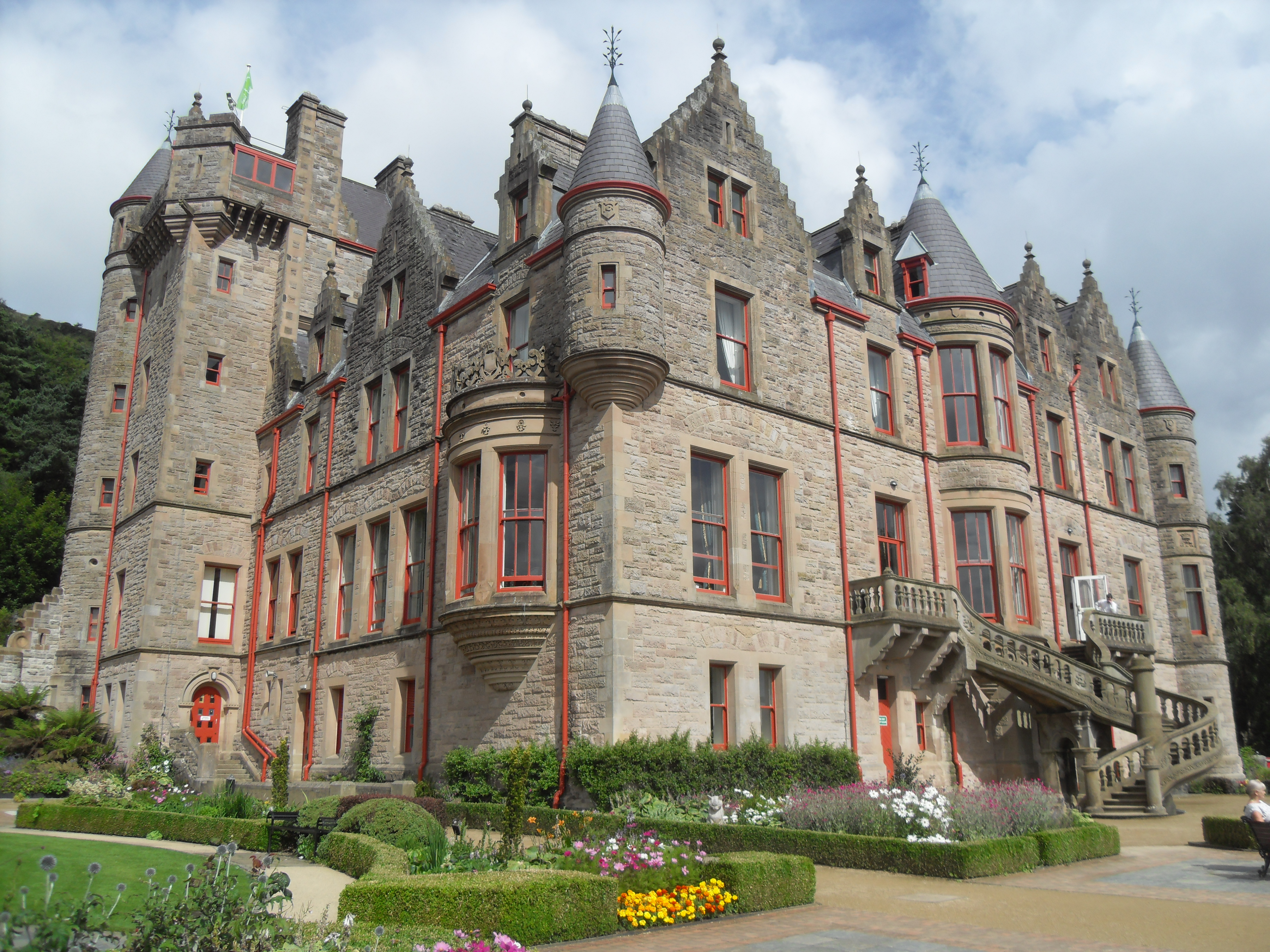 Close view of Belfast Castle taken August 2011